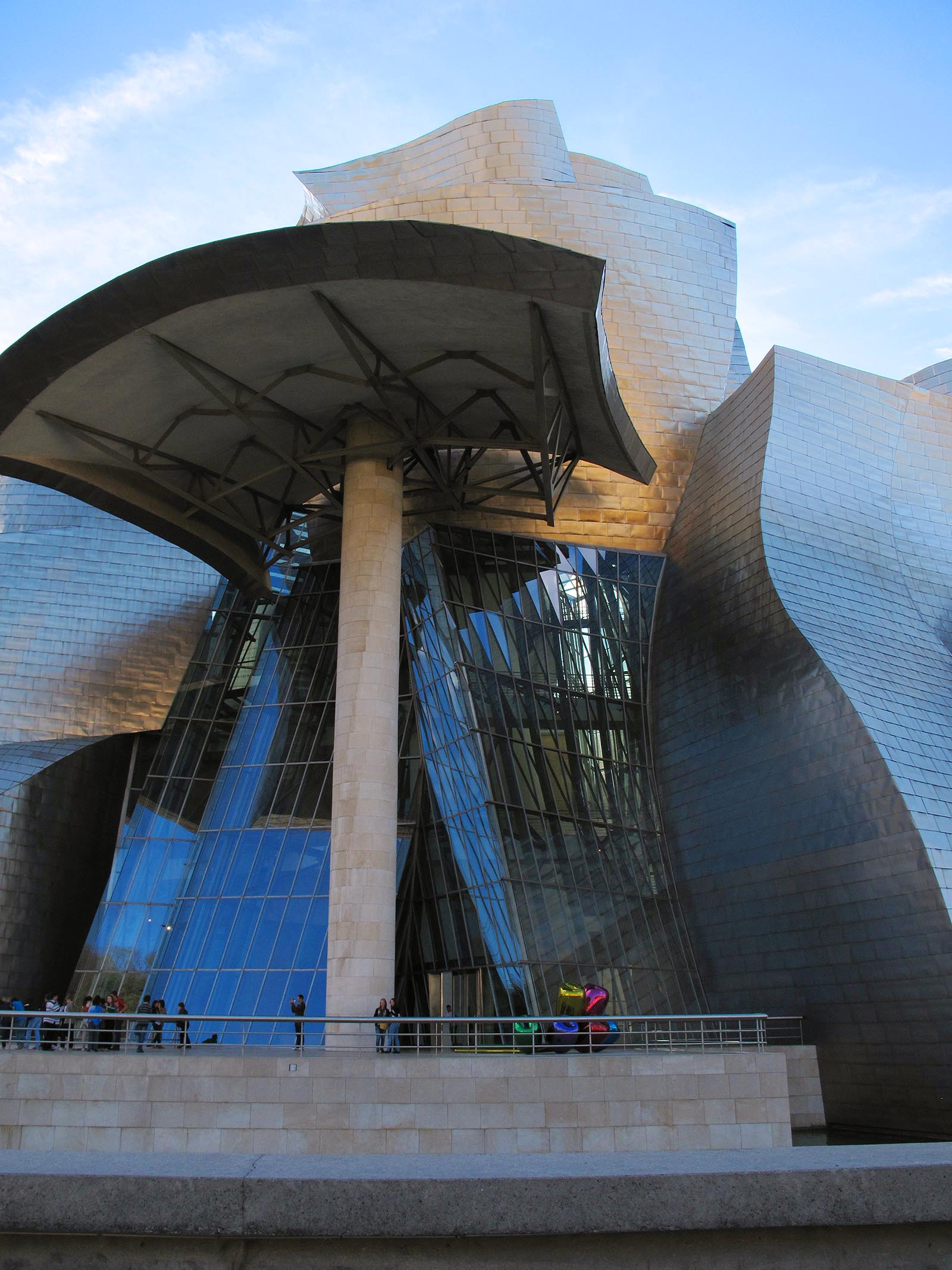 Guggenheim Museum Bilbao